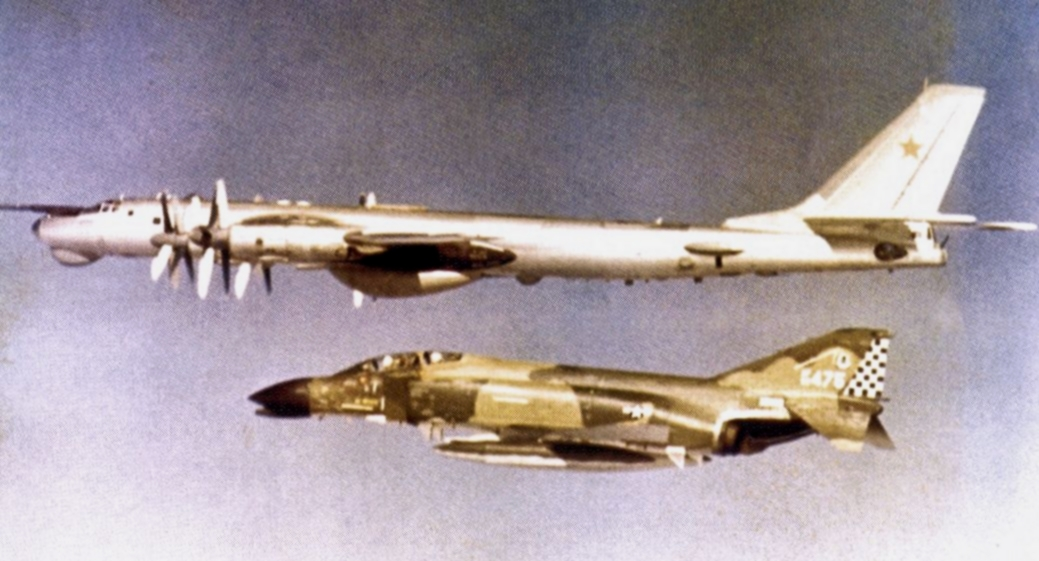 57th Fighter Interceptor Squadron McDonnell F-4C-18-MC Phantom 63-7?475 still in SEA colors intercepting a Tupolev Tu-95, 3 July 1973. 7475 (c/n 466) retired to AMARC as FP0365. Sold to Fritz Enterprises, Taylor, MI Aug 12, 1998, scrapped.